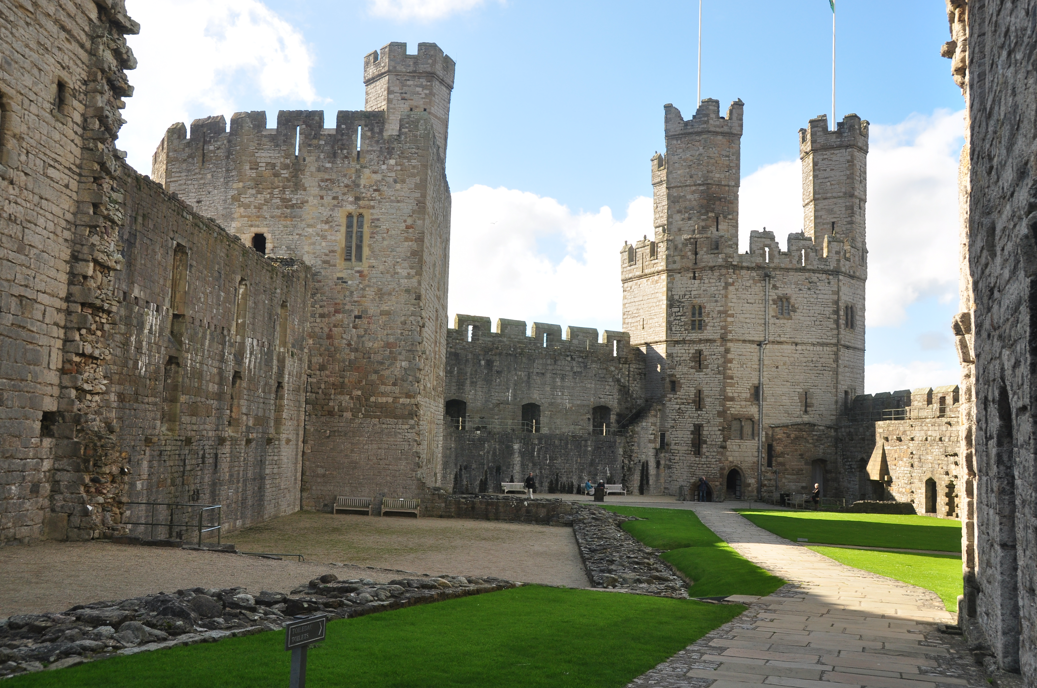 Caernarfon Castle